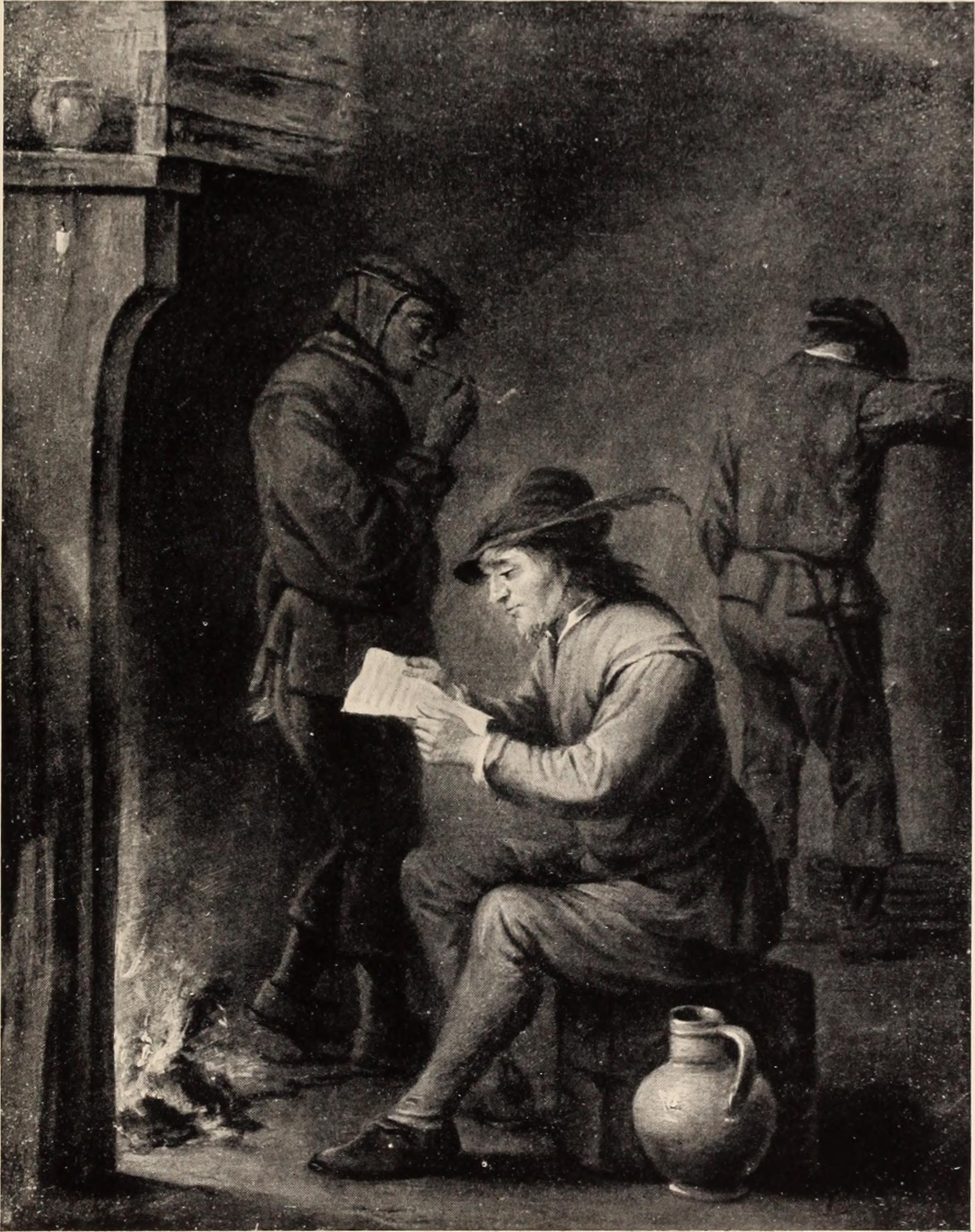 Title: Illustrated catalogue of the private collection of valuable paintings by the old masters and early English artists formed by the late Leon Hirsch of New York Year: 1914 (1910s) Authors: American Art Association Subjects: Leon Hirsch Publisher: New York : American Art Association Text Appearing Before Image: NIERS (THE YOUNGER) F1.EMISH: 1610—1690 INTERIOR WITH FIGURES Ji jJJ (Panel) ^ Height, III/4 inches; width, 8^4 inches A SNAPPING fire ))lazes on the hearth in a tall fireplace at theleft, in a humble interior with olive-brown walls. A peasantin brown who smokes a lon^-stemmed clay pipe stands with hisback to the fire, one hand behind him, the other attending hisf)ipe. Seated on a box or blocks of wood before the fire a manin a green tunic and brown pantaloons, and wearing a longfeather in his rather rakish hat, is reading from an unfoldedpaper or sheet of music, a pitcher at his side. Like the smoker,he is seen in profile, but facing the fire. Behind him anotherpeasant in brown blouse and breeches stands leaning againstthe wall, his back to the onlooker. Signed at the loxcer right zcith the monogravi, D.T. Dr. W. R. V.ilentiner wrote on May 6, 1911: The iiainting by Teniers theYounger, depicting three figures in an inn, is in my opinion a genuine, early pieceof work by this artist. Text Appearing After Image: No. 10PEASANTS UEPAST BY ADRIAKN VAN OSIADK No. 10ADRIAEN VAN OSTADE